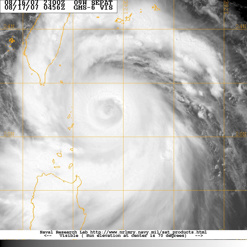 Typhoon Sepat's double eye